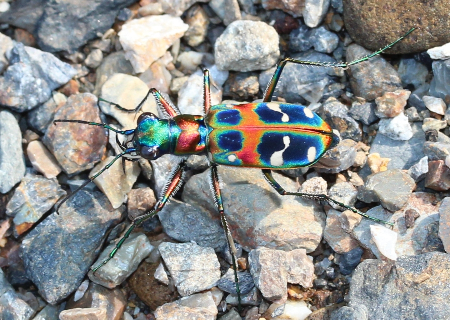 Cicindela chinensis japonica, in Mount Yōrō ,Japan.